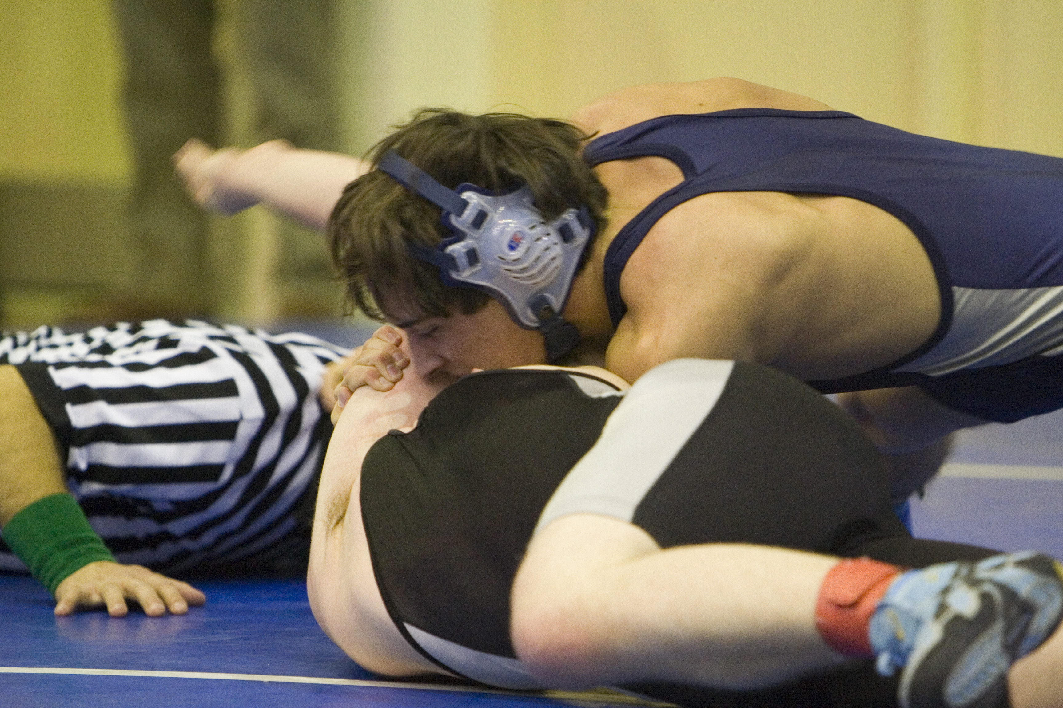 Two high school students wrestling (collegiate, scholastic, or folkstyle) in the United States. Originally uploaded by Wikiman86 on the English Wikipedia project at